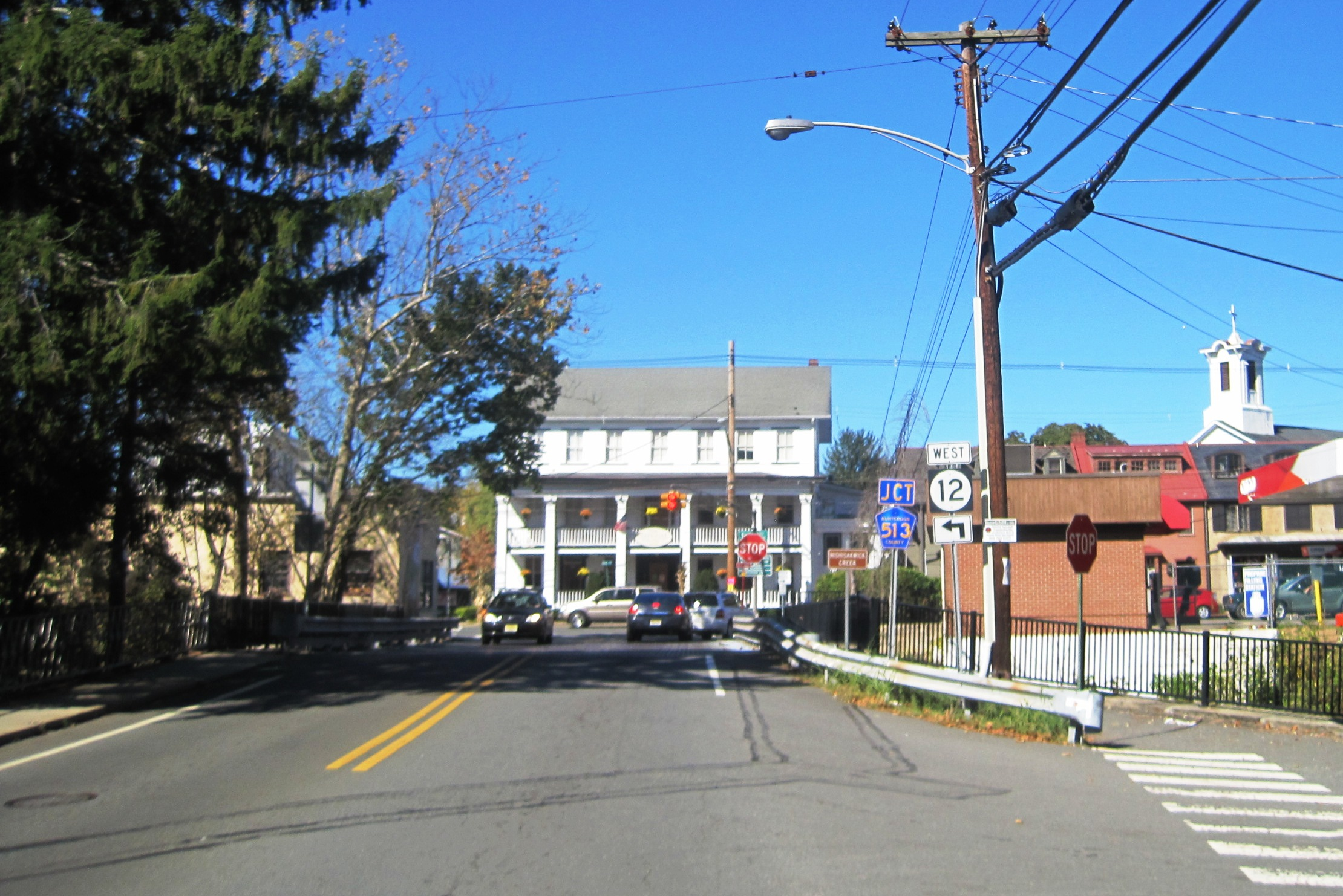 Photo of the southern terminus of County Route 513 in Frenchtown, New Jersey at New Jersey Route 12.